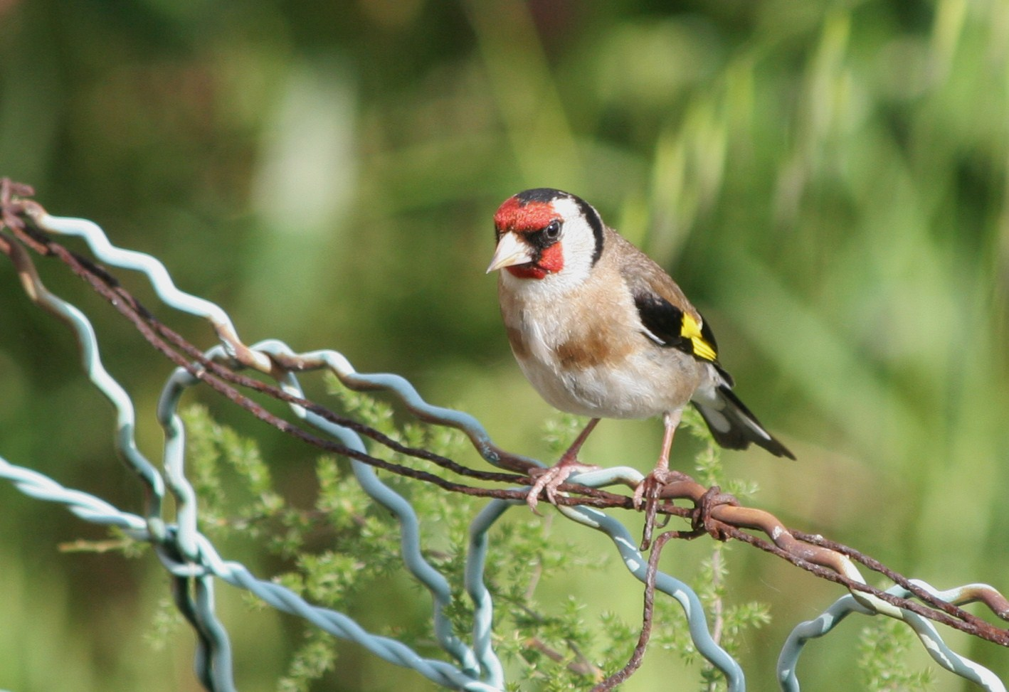 A European Goldfinch at Valledoria, Sardinia, Italy